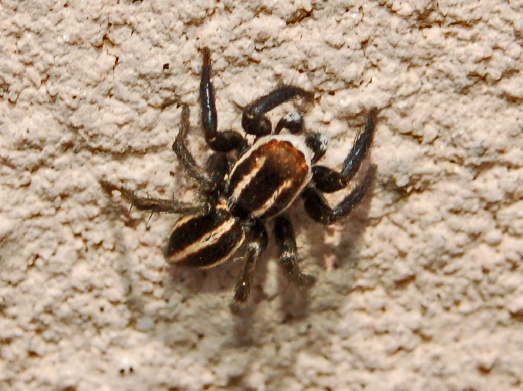 Phlegra bresnieri - male in Genova, Italy